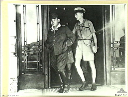 JAPANESE GENERAL KENJI DOIHARA IN CUSTODY. POSSIBLY TAKEN DURING THE WAR CRIMES TRIALS IN TOKYO, WHICH WERE HELD FROM 1946-05 TO 1948-11. GENERAL DOIHARA WAS FOUND GUILTY OF WAR CRIMES INCLUDING ATROCITIES AGAINST PRISONERS OF WAR AND CIVILIANS. GENERAL DOIHARA WAS EXECUTED BY HANGING IN SUGAMO PRISON, TOKYO, ON 1948-12-23.(It is also possible that Doihara has been photographed shortly after he was taken in custody in september 1945. The reason for that assumption is, that he is wearing uniform with rank insignia, but for defendants at the IMTFE this was prohibited.)